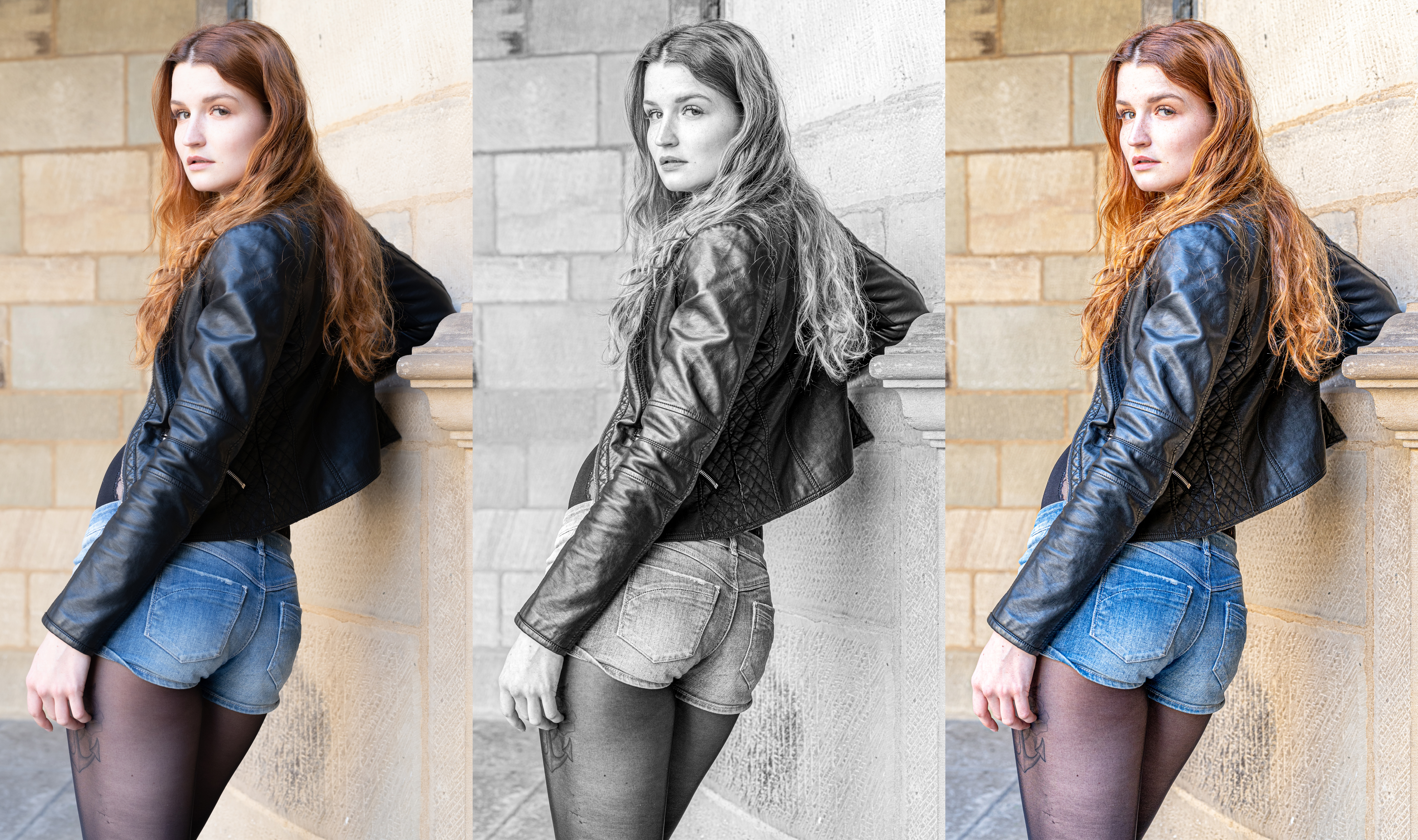 Black and white conversion of a RAW file to bring out the details without making it look too unnatural. Normal colour version on the left. Final black and white in the middle. Same Image without the desaturation on the right. Showing a leather jacket with quilted details. Worn with low rise denim shorts and a bodysuit over sheer to waist tights. Image taken with available light. Modelled by ModelTanja.